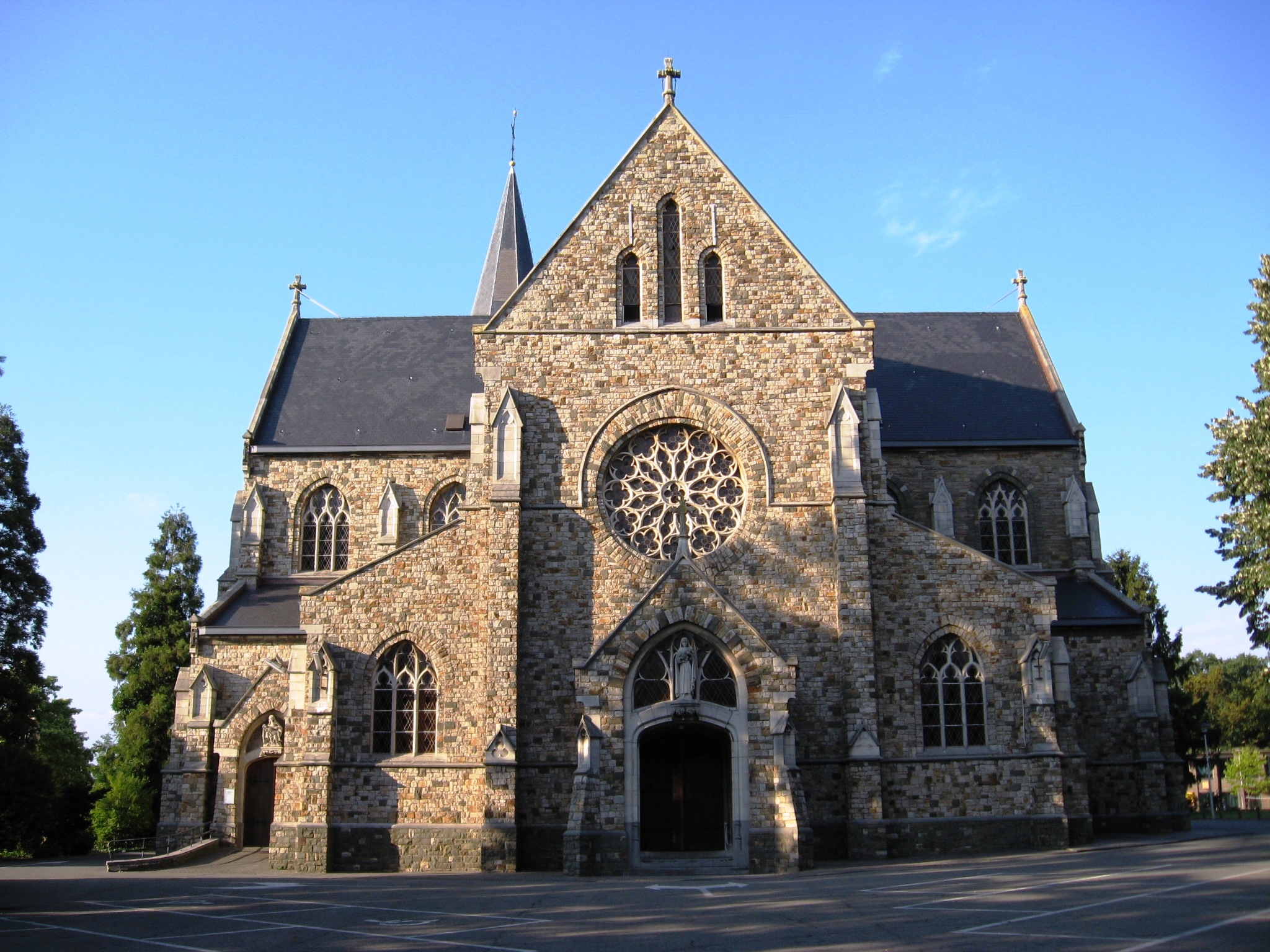 Church of Saint Teresa in As, Limburg, Belgium